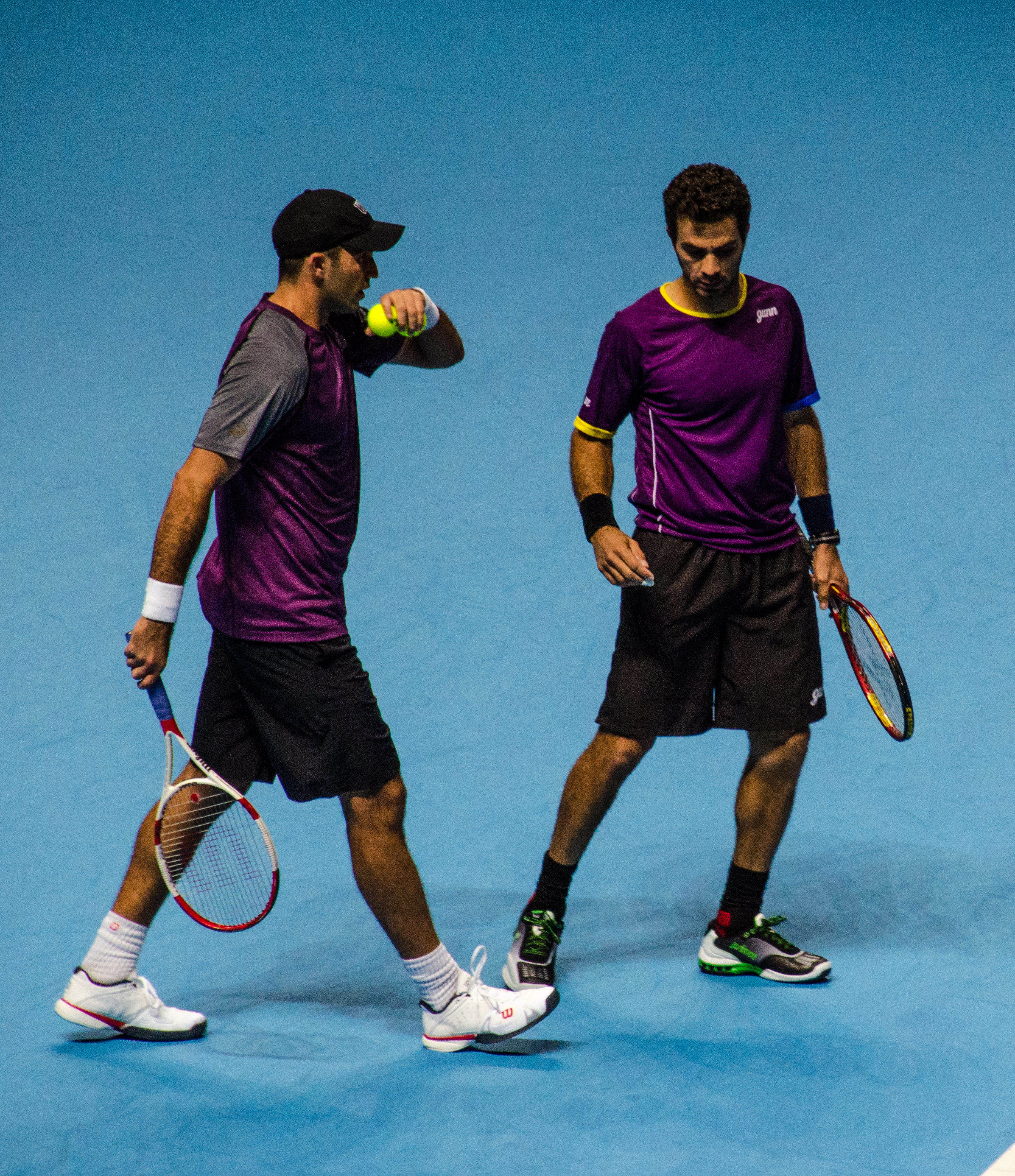 This is a photo of a tennis game at the ATP World Tour Finals.